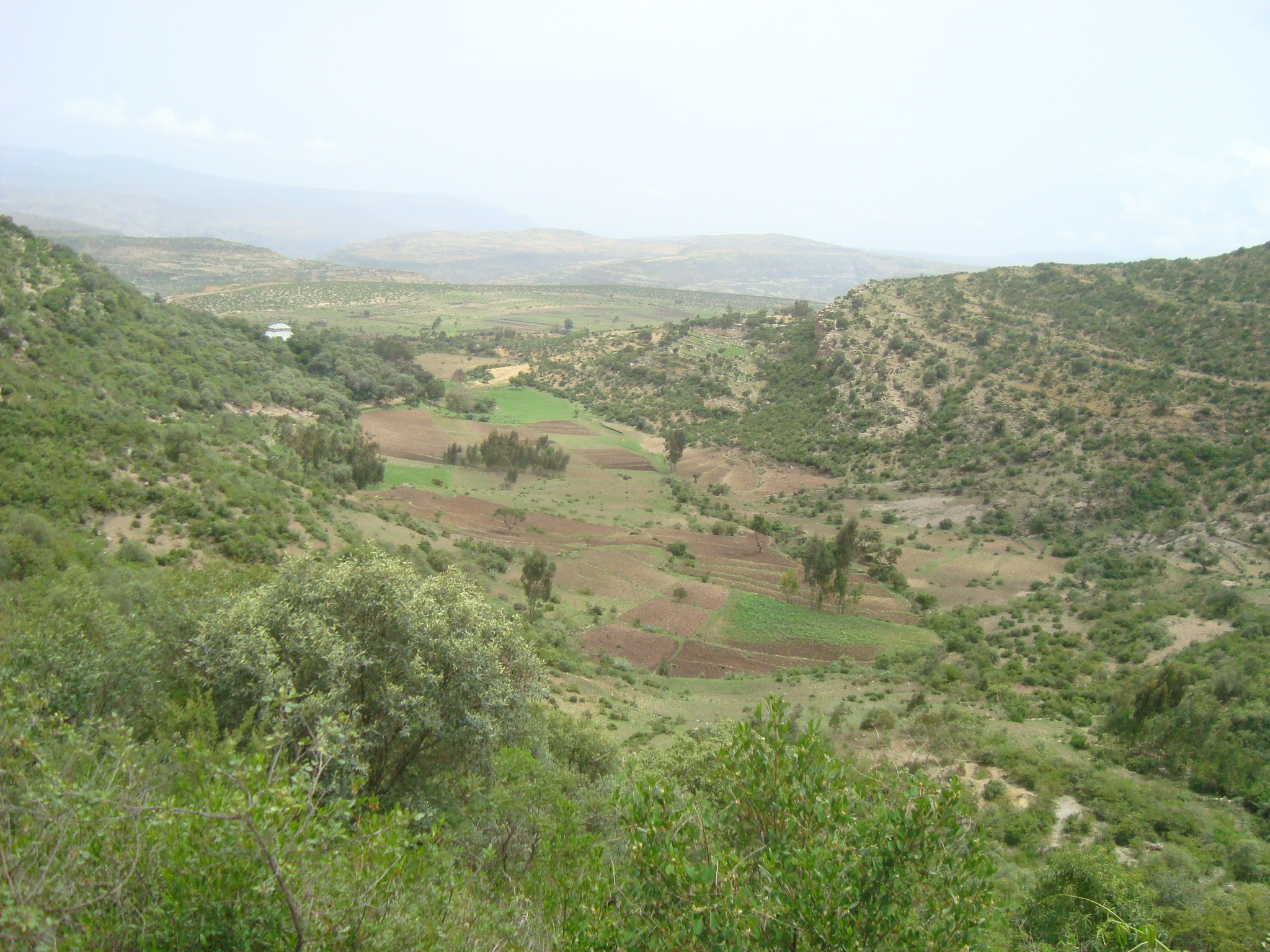 Gully control in Mishlam, Dogu'a Tembien. The gully restored because the catchment at the back of the photographer has been reforested.